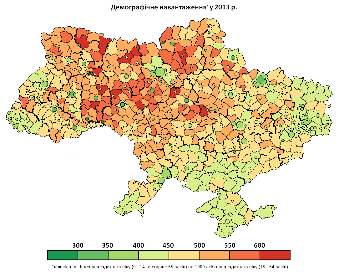 Demographic burden per 1000 people of working age in Ukraine, 2013